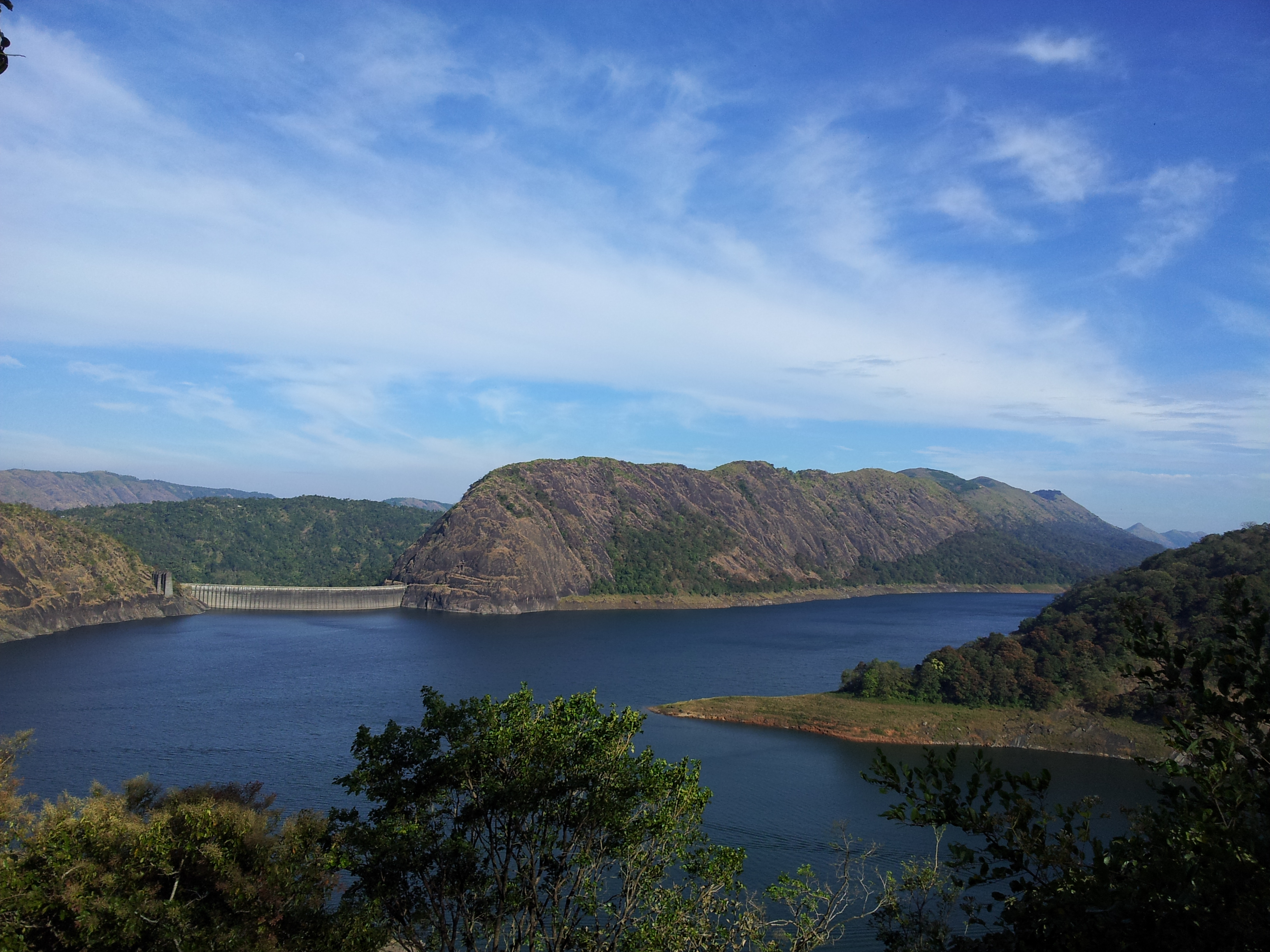 Idukki Dam view